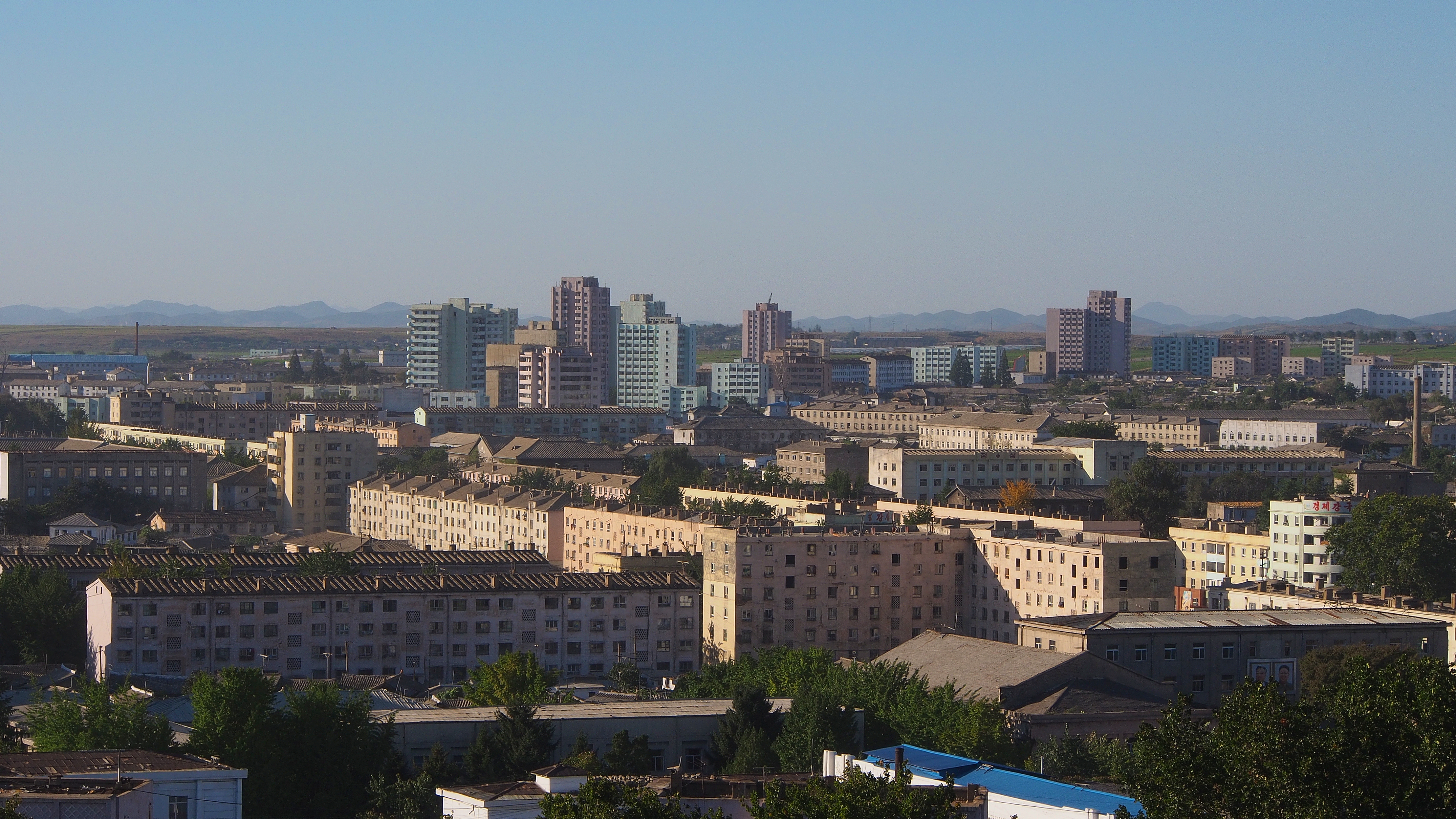 Capital of North Hwanghae province